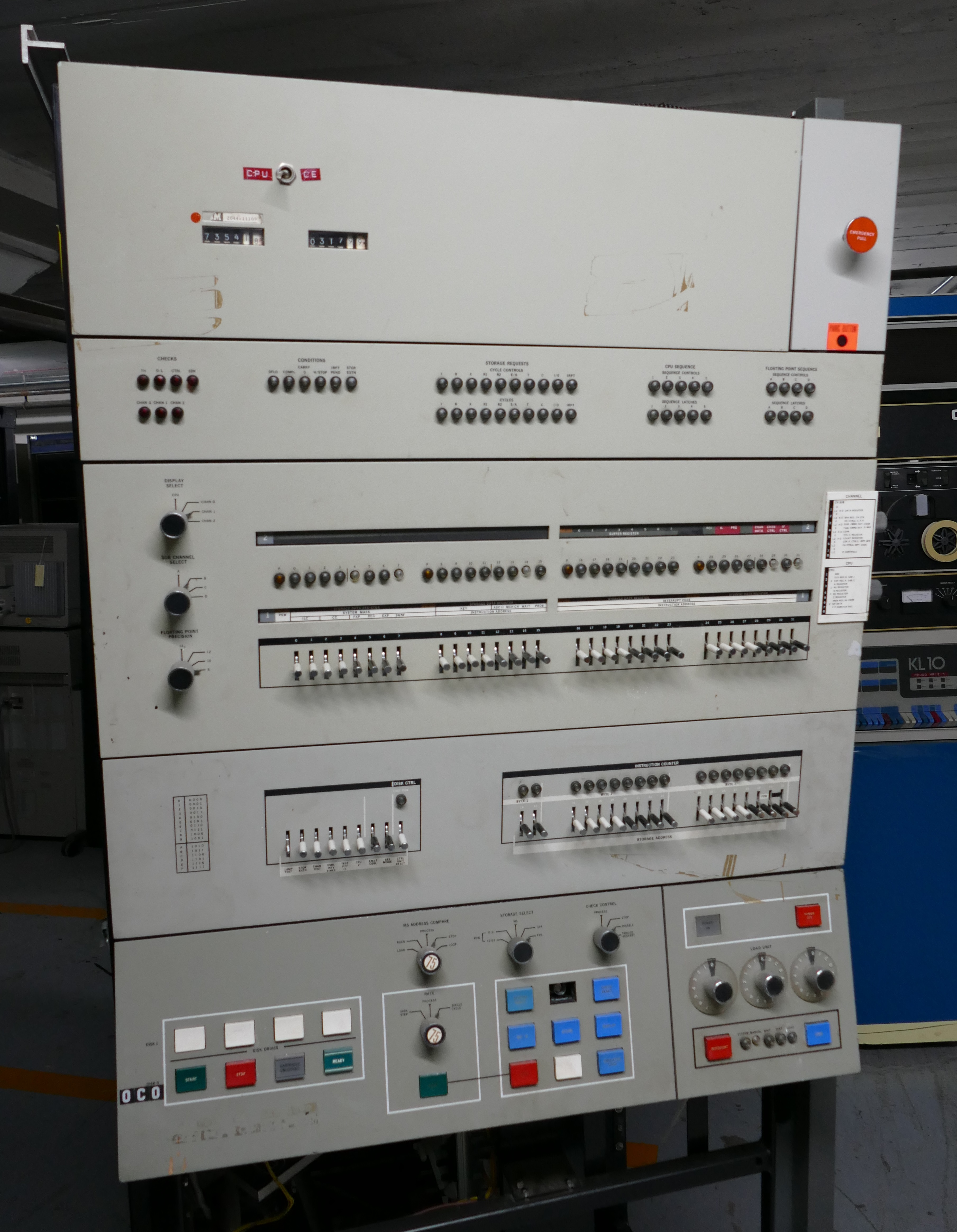 The IBM System/360 Model 44 was a mainframe computer, introduced in 1965. The lights and switches on the console were used by the computer operator and by IBM customer engineers.